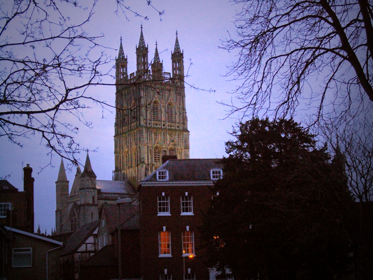 Gloucester cathedral, Gloucester, England